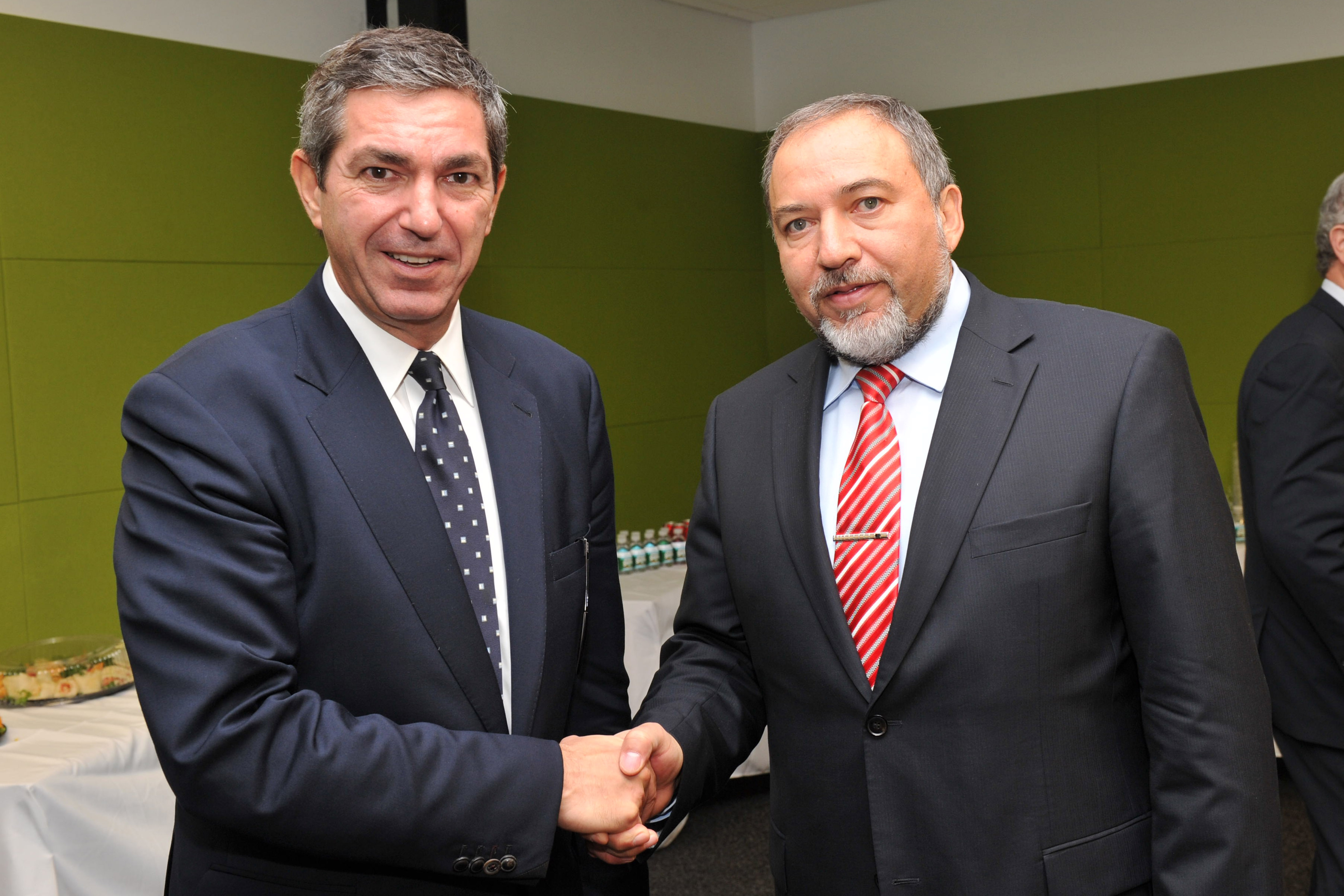 Greek Foreign Minister Lambrinidis with Israeli Foreign Minister Avigdor Lieberman on the sidelines of the 66th General Assembly UN (New York, 22.09.2011).